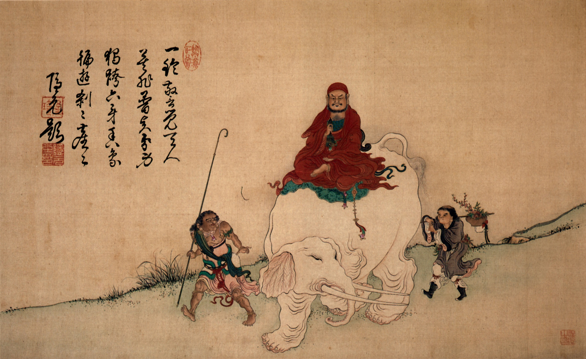 Bodhidharma_on_Elephant_Yiran_Inscription_by_Yinyuan_color_on_silk_hanging_scroll